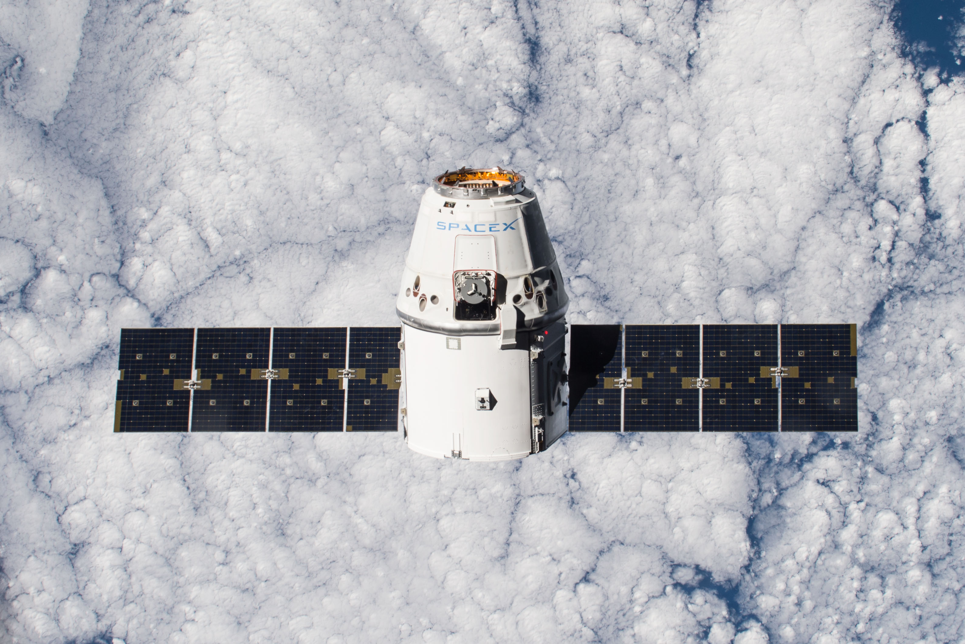 This image, photographed by one of the Expedition 42 crew members aboard the International Space Station, shows the SpaceX Dragon cargo craft approaching on Jan. 12 2015 for its grapple and berthing and the start of a month attached to the complex. Dragon carried more than 2 ½ tons of supplies and experiments to the station.